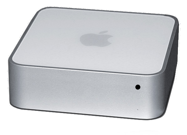 An Intel Mac mini, derived from the derivation of this photograph from flickr, taken by Chris Lawrence (lordsutch) and released under CC-BY-SA-2.0. I just added the transparent background.